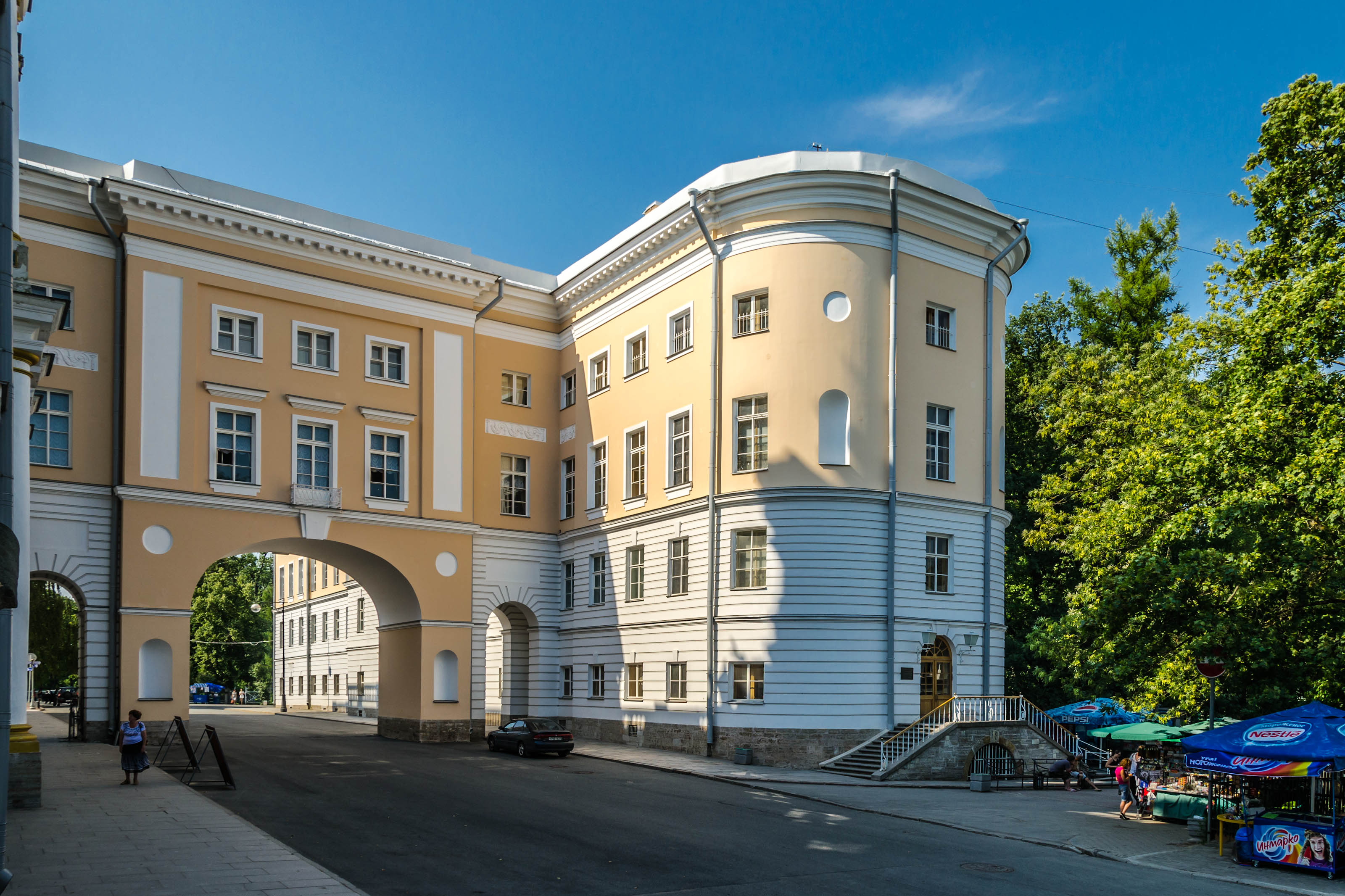 Liceum building in Tsarskoe Selo, Saint Petersburg